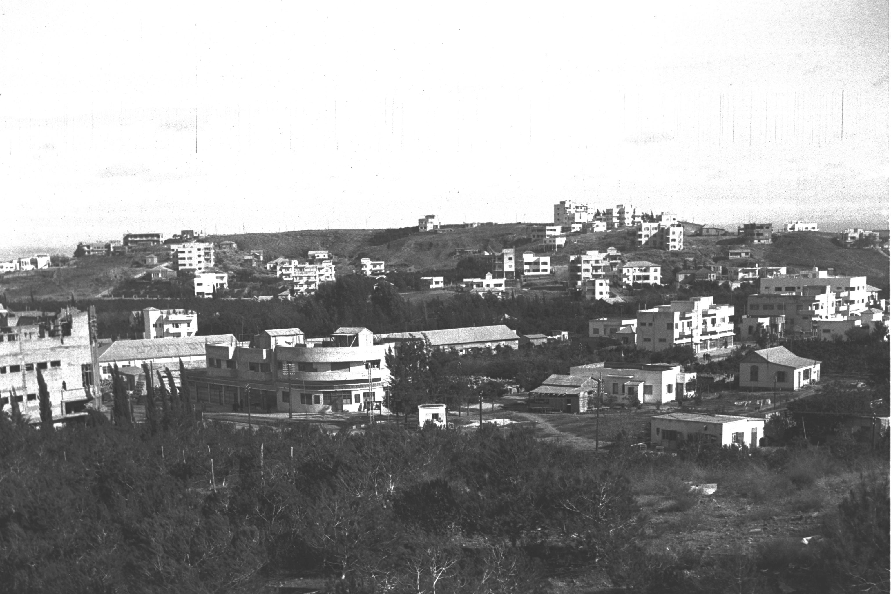 GENERAL VIEW OF RAMAT GAN. העיר רמת גן.